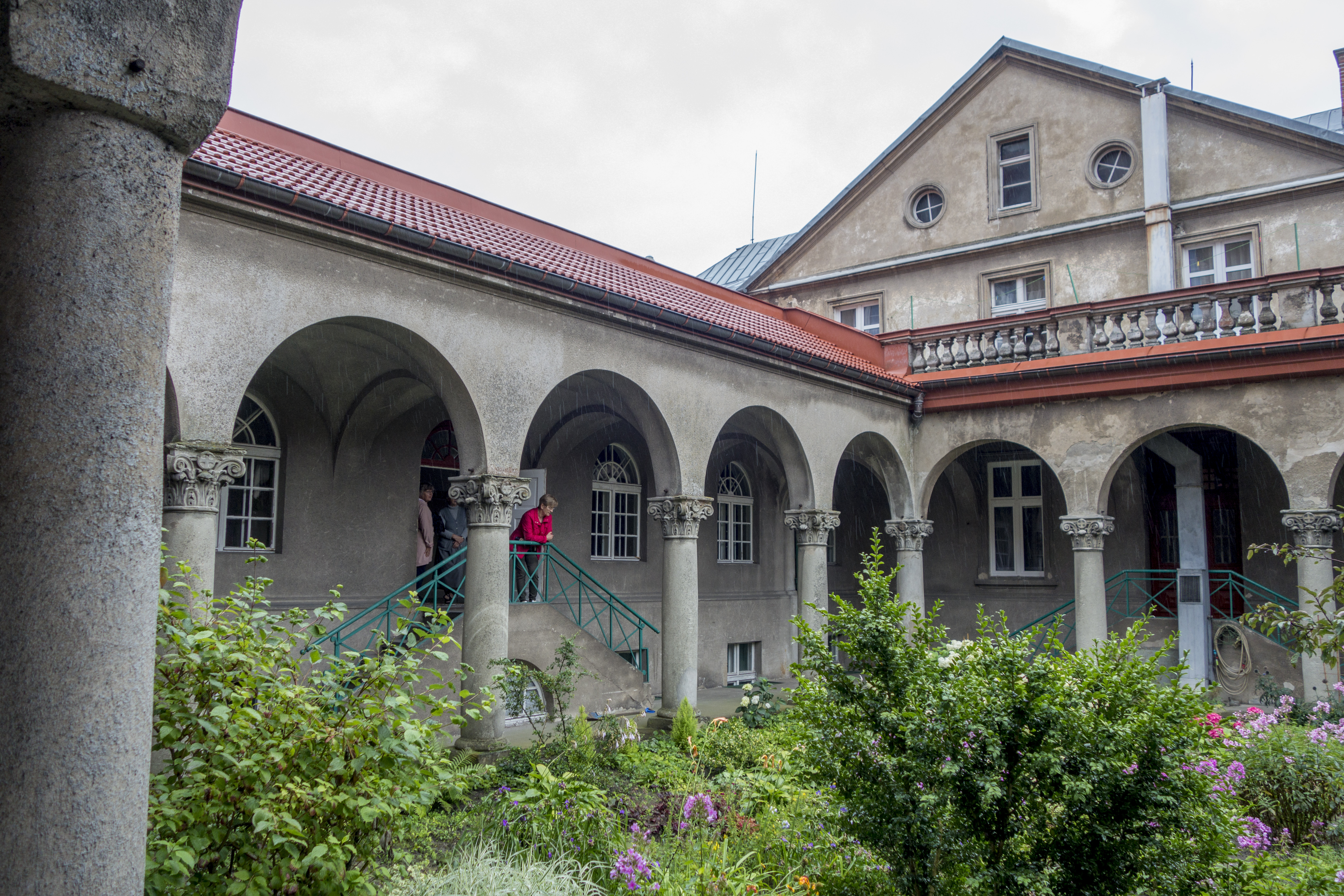 Convent of Society of the Sacred Heart in Pobiedziska (Poland) - The backyard